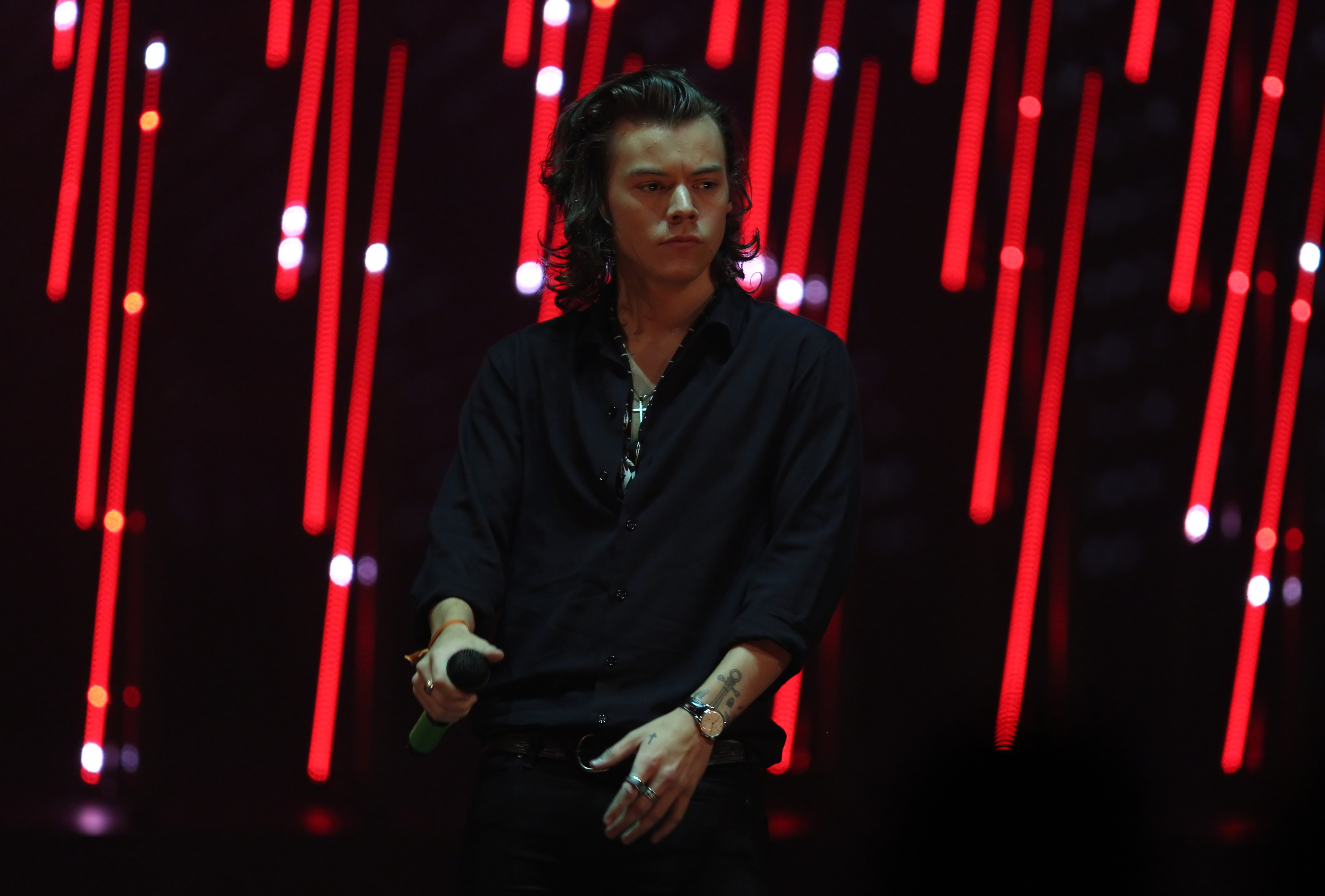 Wetten, dass.. ? 214. show in Graz, 8. Nov. 2014 Harry Edward Styles at 214. Wetten, dass.. ? show in Graz, 8. Nov. 2014